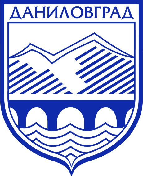 Crest (coat of arms) of Danilovgrad, Montenegro